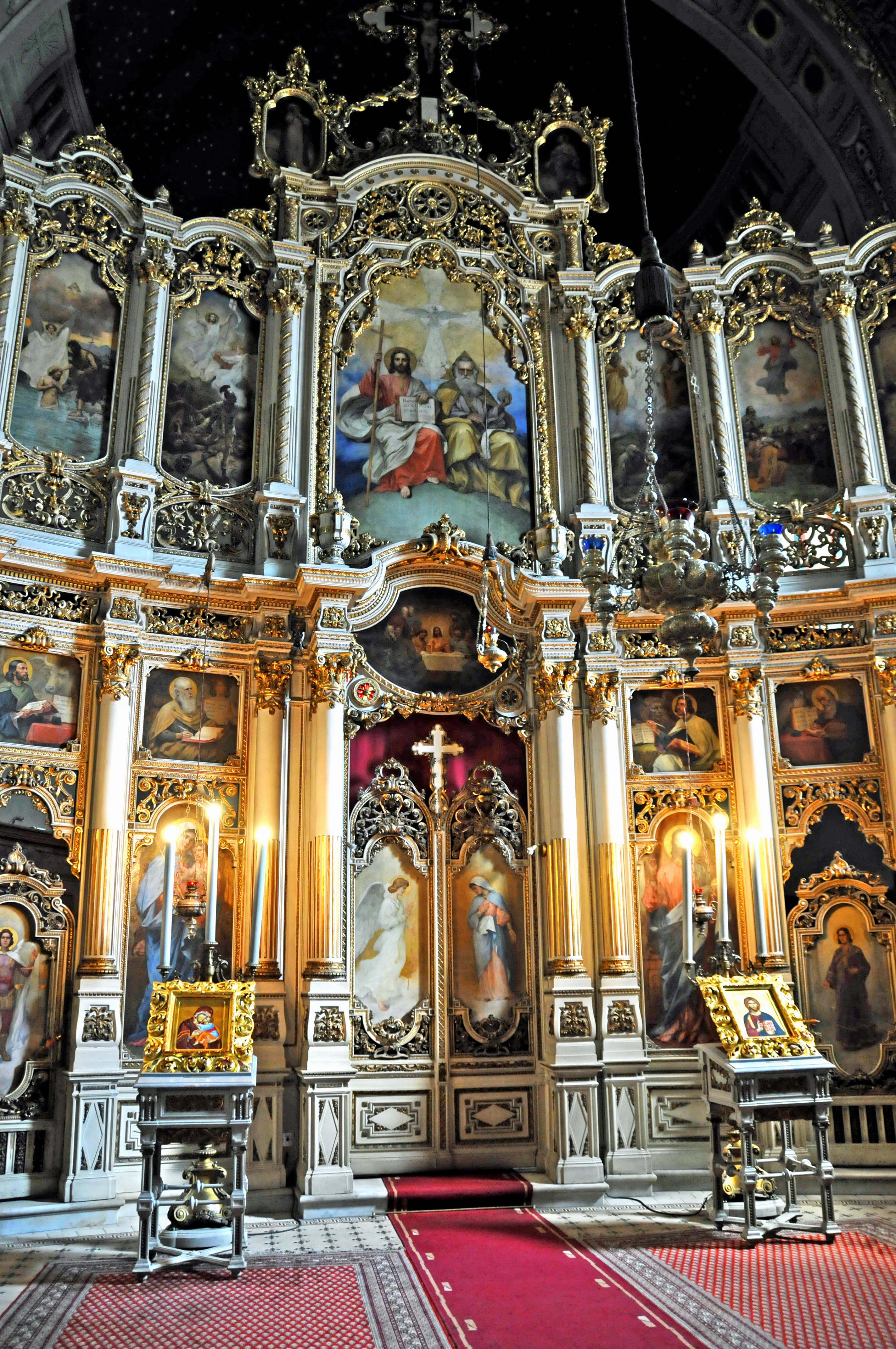 PLEASE, no multi invitations, glitters or self promotion in your comments, THEY WILL BE DELETED. My photos are FREE for anyone to use, just give me credit and it would be nice if you let me know, thanks - NONE OF MY PICTURES ARE HDR. The Orthodox Cathedral of Saint George is a head church of Serbian Orthodox. It was built between 1860 and 1905, after the old temple was almost totally destroyed in the Revolution of 1848/1849. The church was built on the place of older one, dating from 1734. The Novi Sad Orthodox Cathedral is dedicated to the Saint George. Inside the church there are 33 icons on the iconostasis, historical pictures above both choirs, as well as two large throne icons.